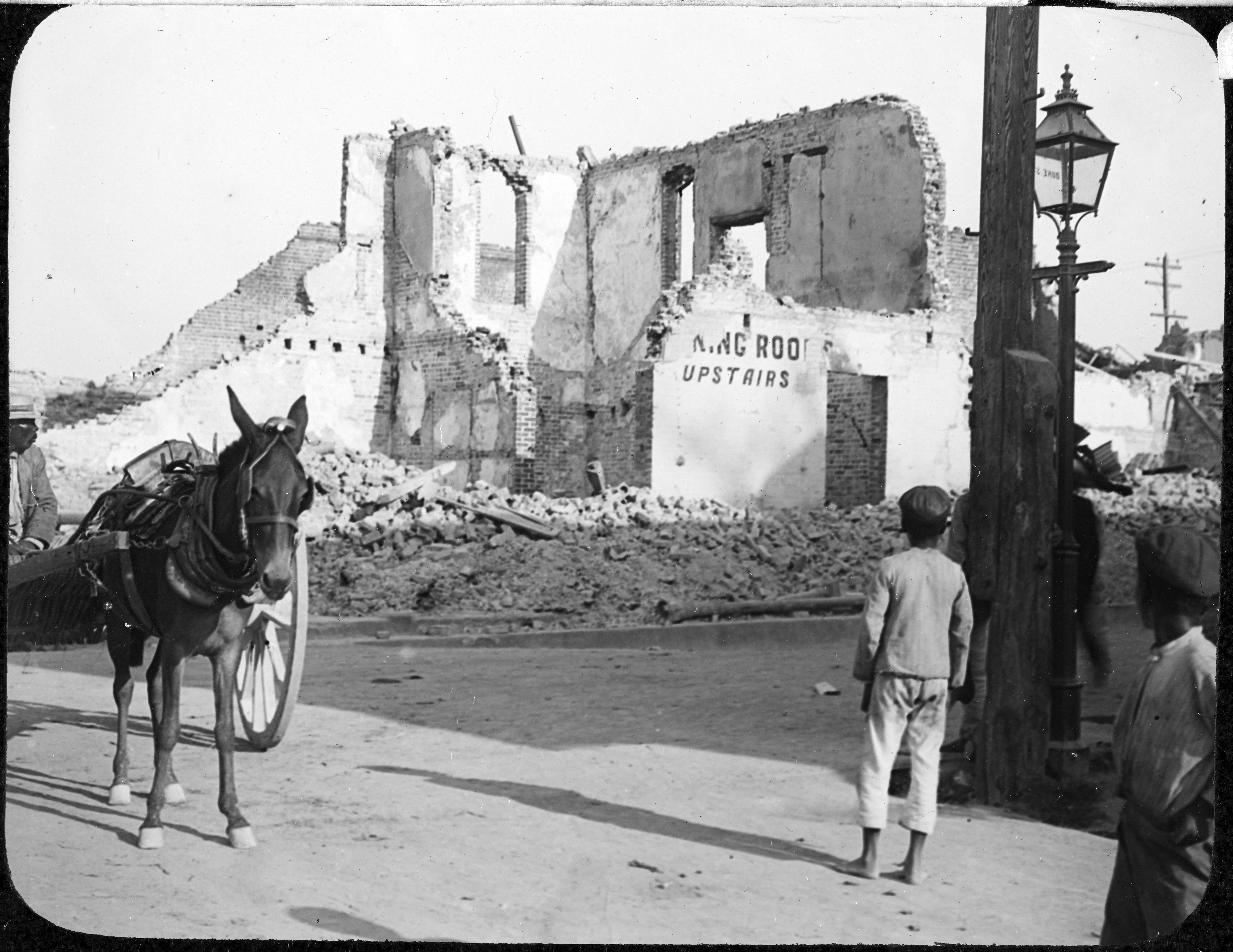 One slide and one negative. Ruined building, damaged by earthquake. The lettering remaining on one wall indicates 'Dining Rooom Upstairs. English-style gas lamp, and cart pulled by mule.